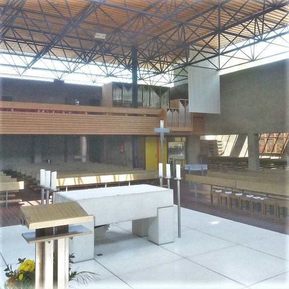 Inneres der Pfarrkirche St. Christoph München-Fasanerie mit Walcker-Orgel